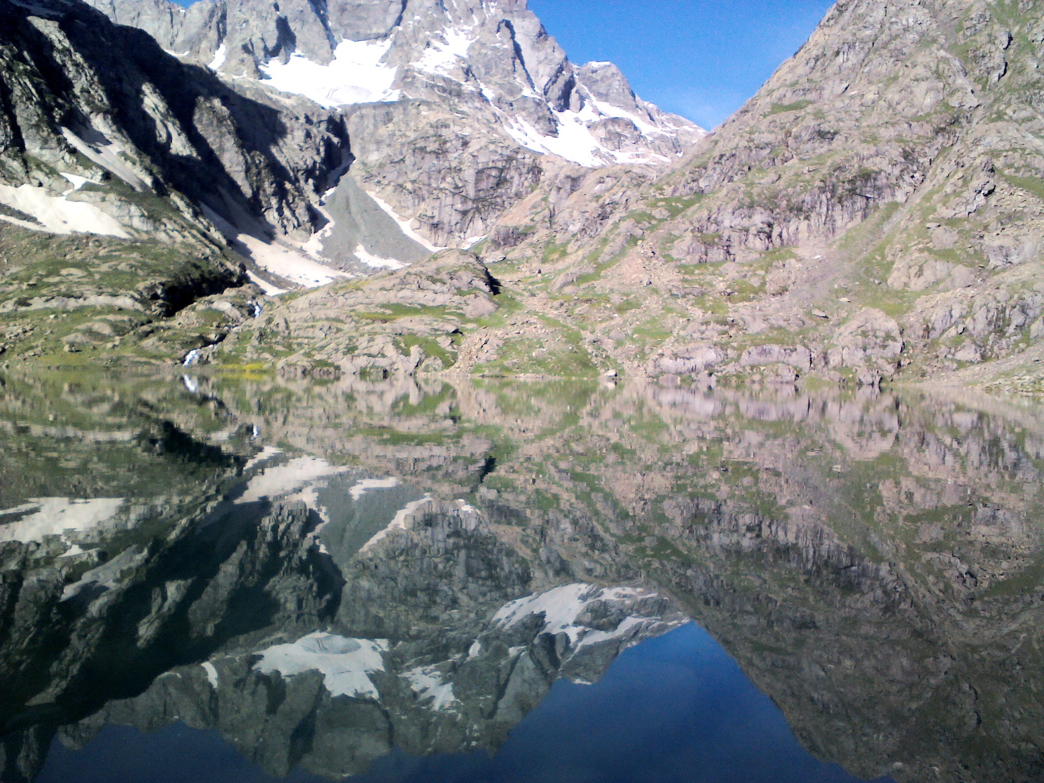 Vishansar Lake in Kashmir